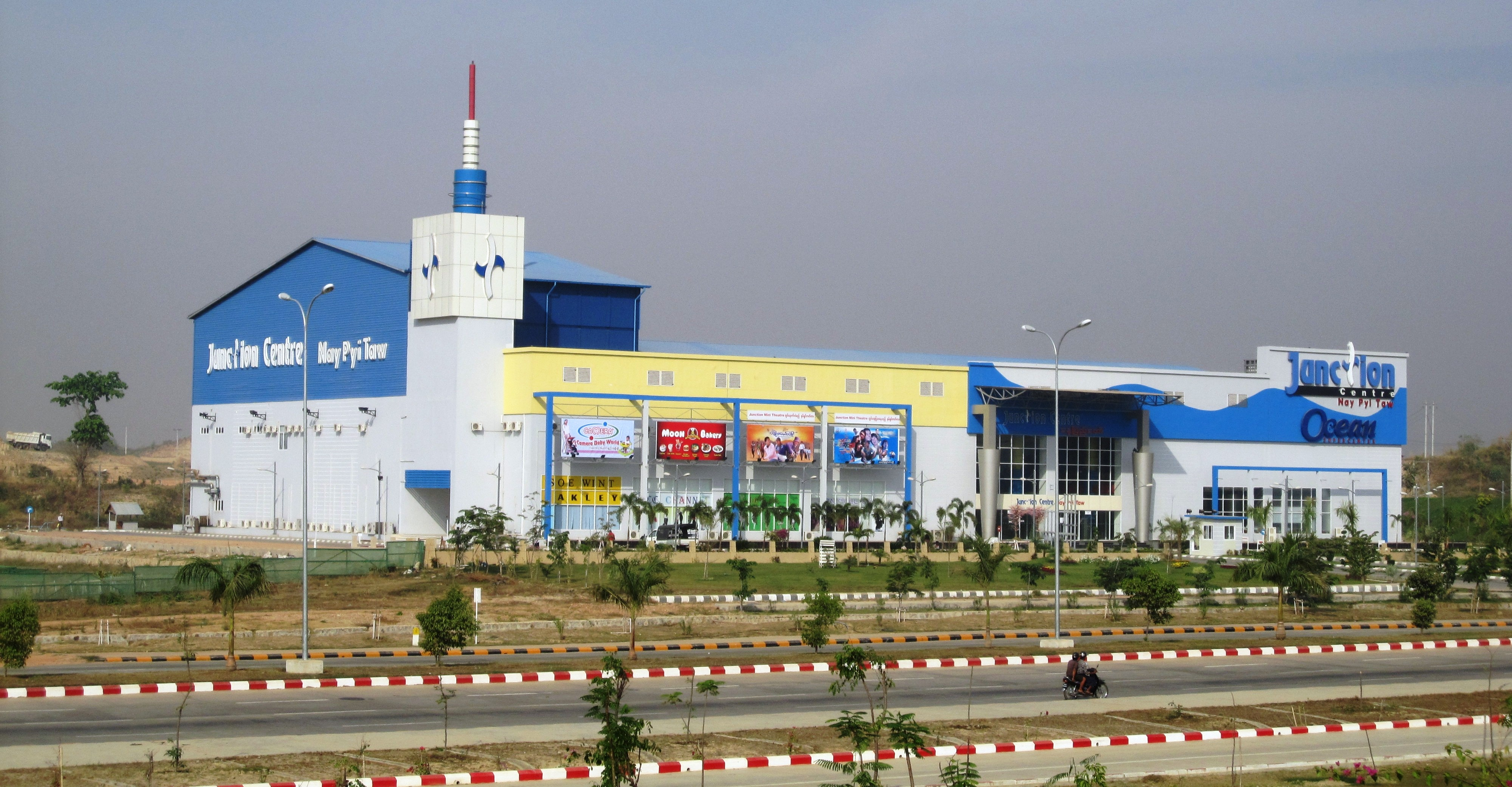 Naypyidaw, Naypyidaw Capital Region, Myanmar: Junction Centre Naypyitaw.